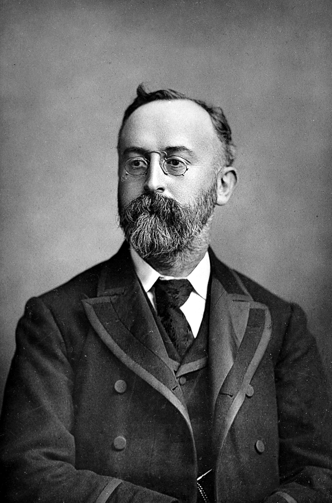 Robson Roose. Photograph by W. & D. Downey. Iconographic Collections